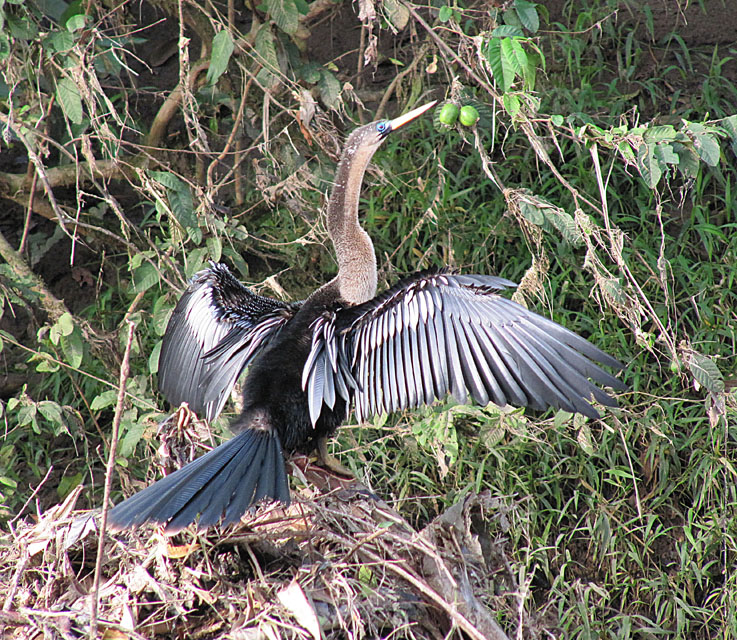 A female Anhinga (Aninga) dries her wings near the Sarapiqui River, Costa Rica. In context at